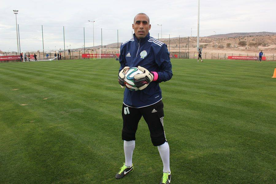 Khaled Askri trainig saturday december 7.2013 .